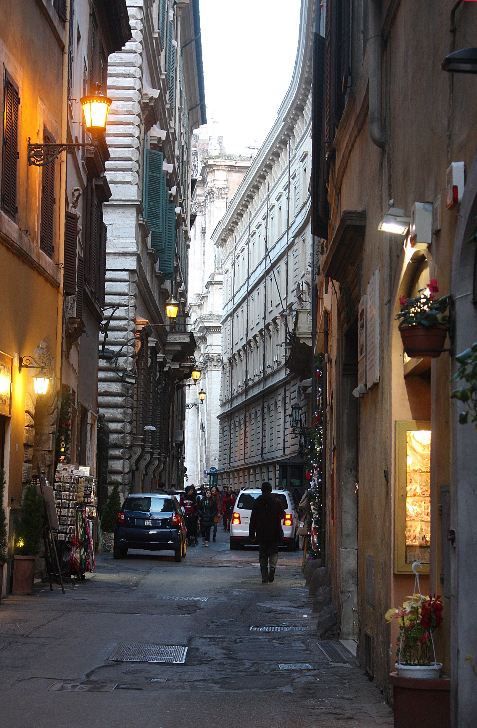 Rome, the street Via del Seminario